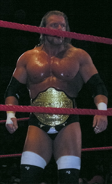 The rightful owner, LC, has given me (original uploader, Zerorules677) permission to distribute this image (see Talk page for E-mail verification). If you have any questions or concerns you can contact the owner at: Category:Professional wrestling free use media